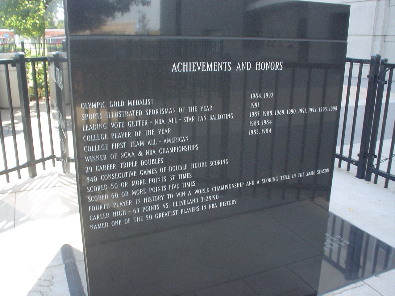 Picture of Michael Jordan plaque at the United Center.